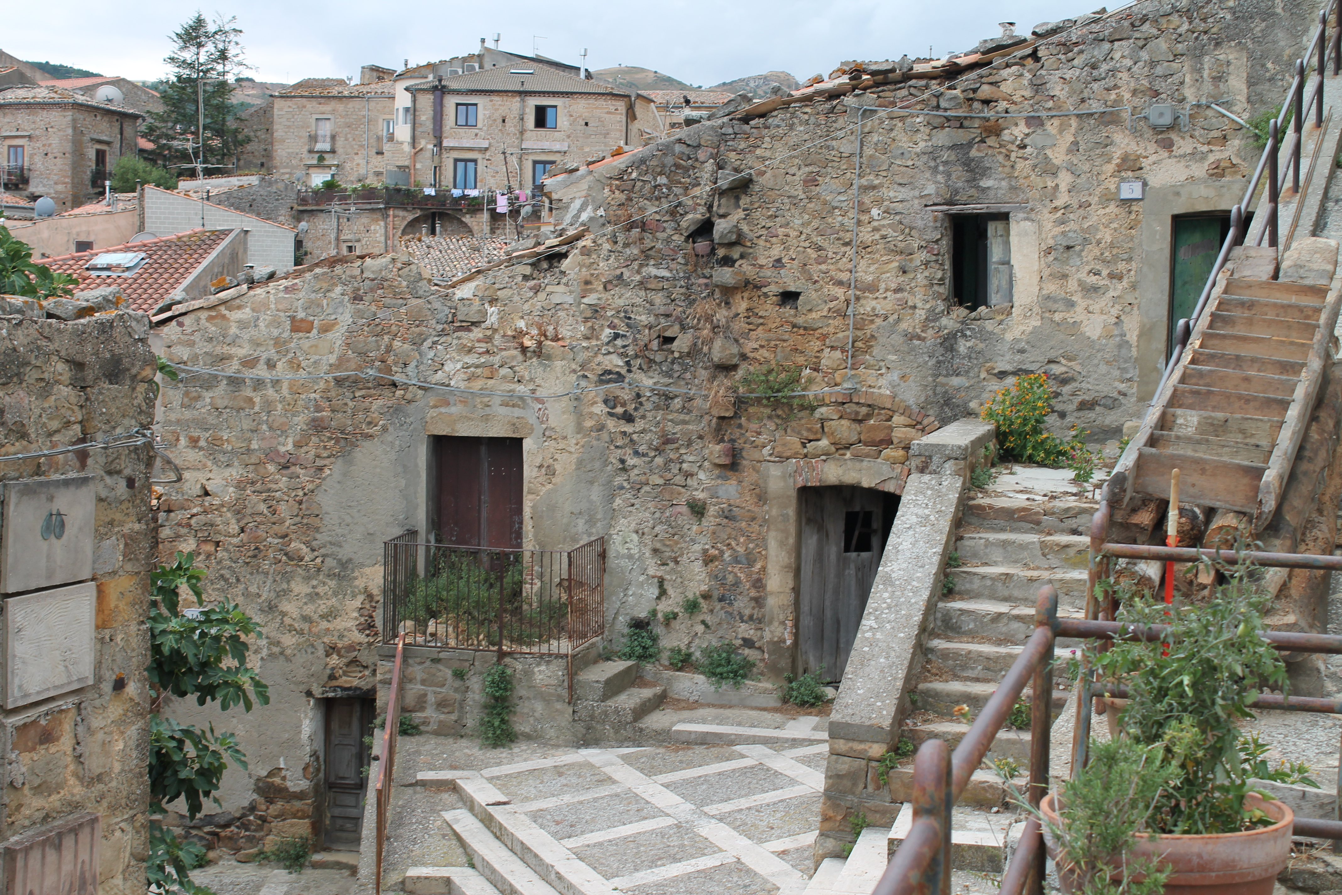 This is a photo of a monument which is part of cultural heritage of Italy.